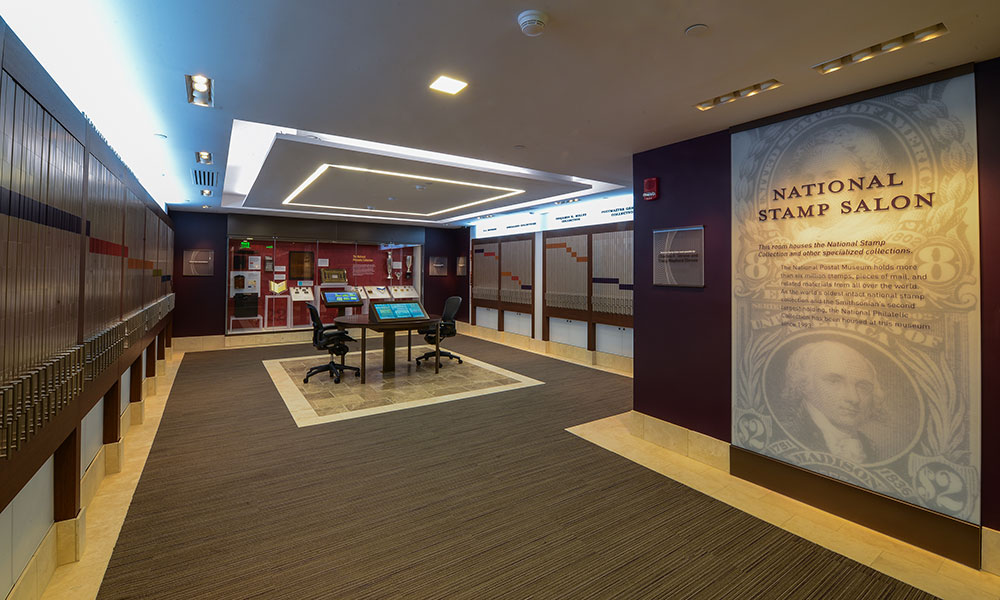 The National Stamp Salon at the National Postal Museum in Washington, D.C.